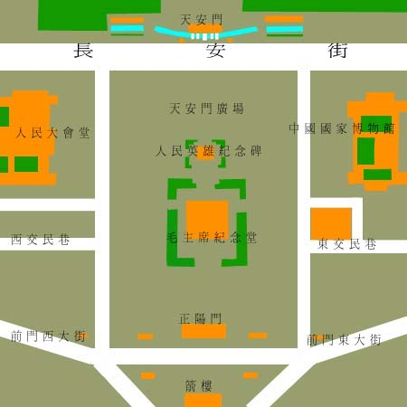 Tiananmen map